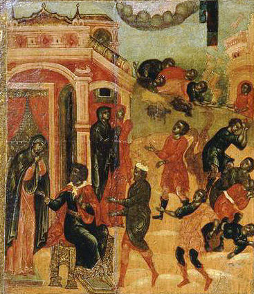 Russian Orthodox Icon detail